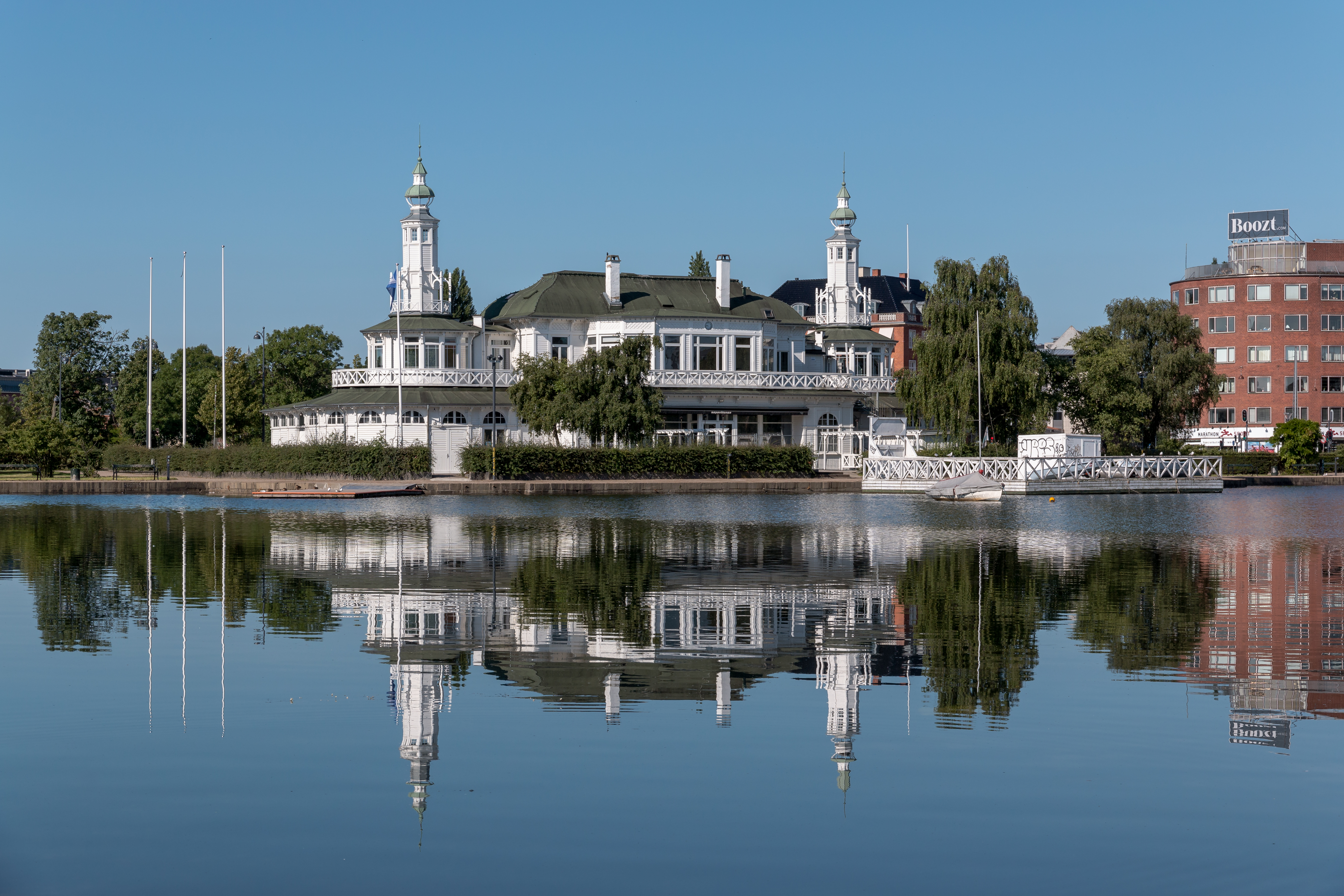 Peblinge Sø with Søpavillonen in Copenhagen, Denmark